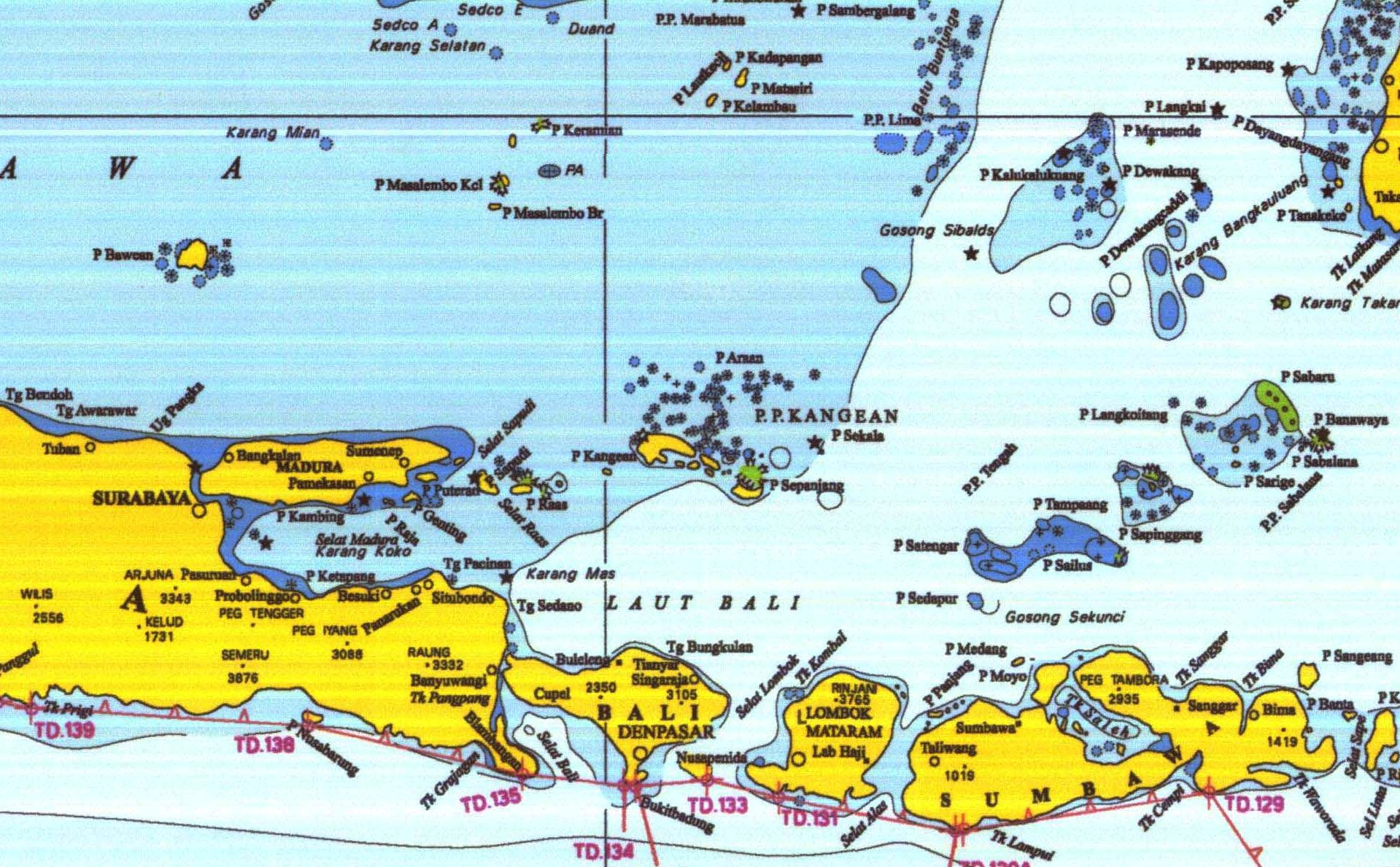 Map of part of Indonesia with Kangean Islands in the middel